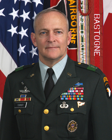 Major General Thomas R. Turner